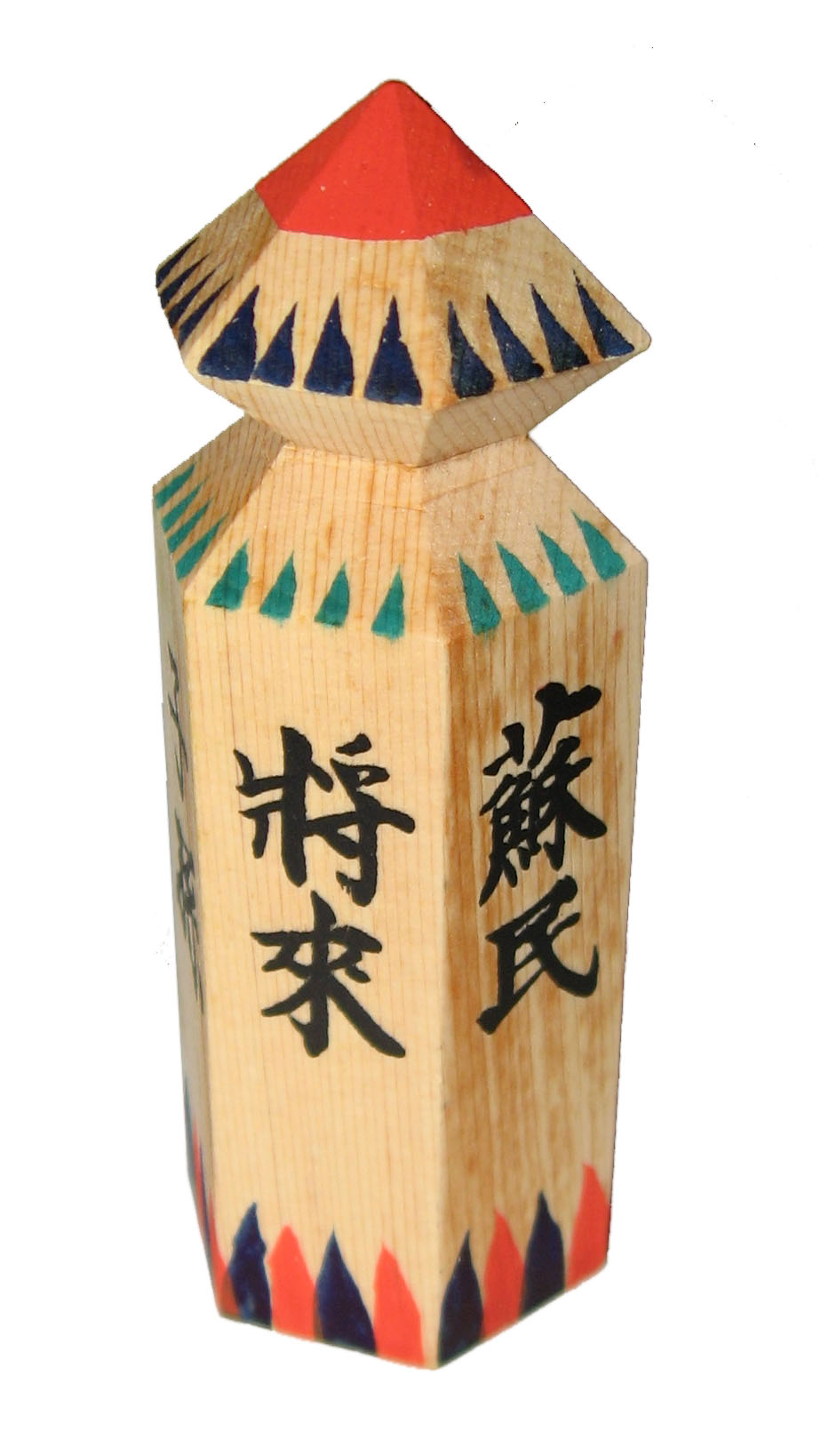 Sominshorai, Omamori of Kobe Gion shrine